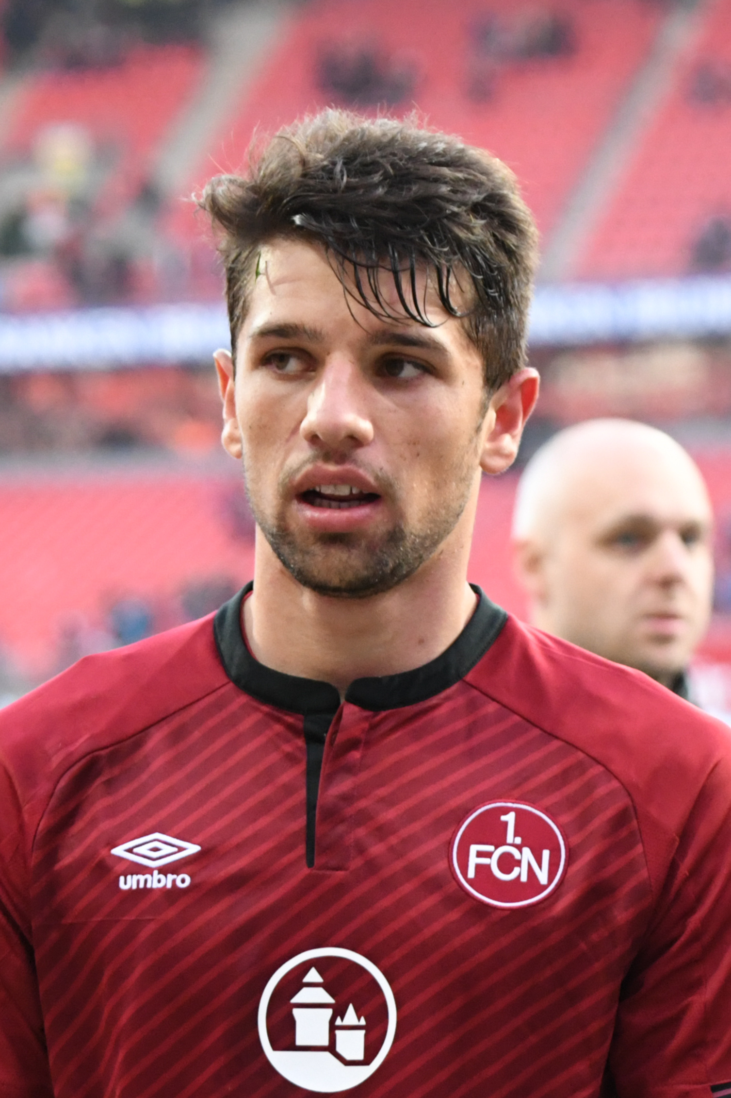 German Soccer League Season 2018/19, 31st match day 1. FC Nürnberg vs. 1. FC Bayern München. Picture shows: Lukas Muehl of Nuremberg.